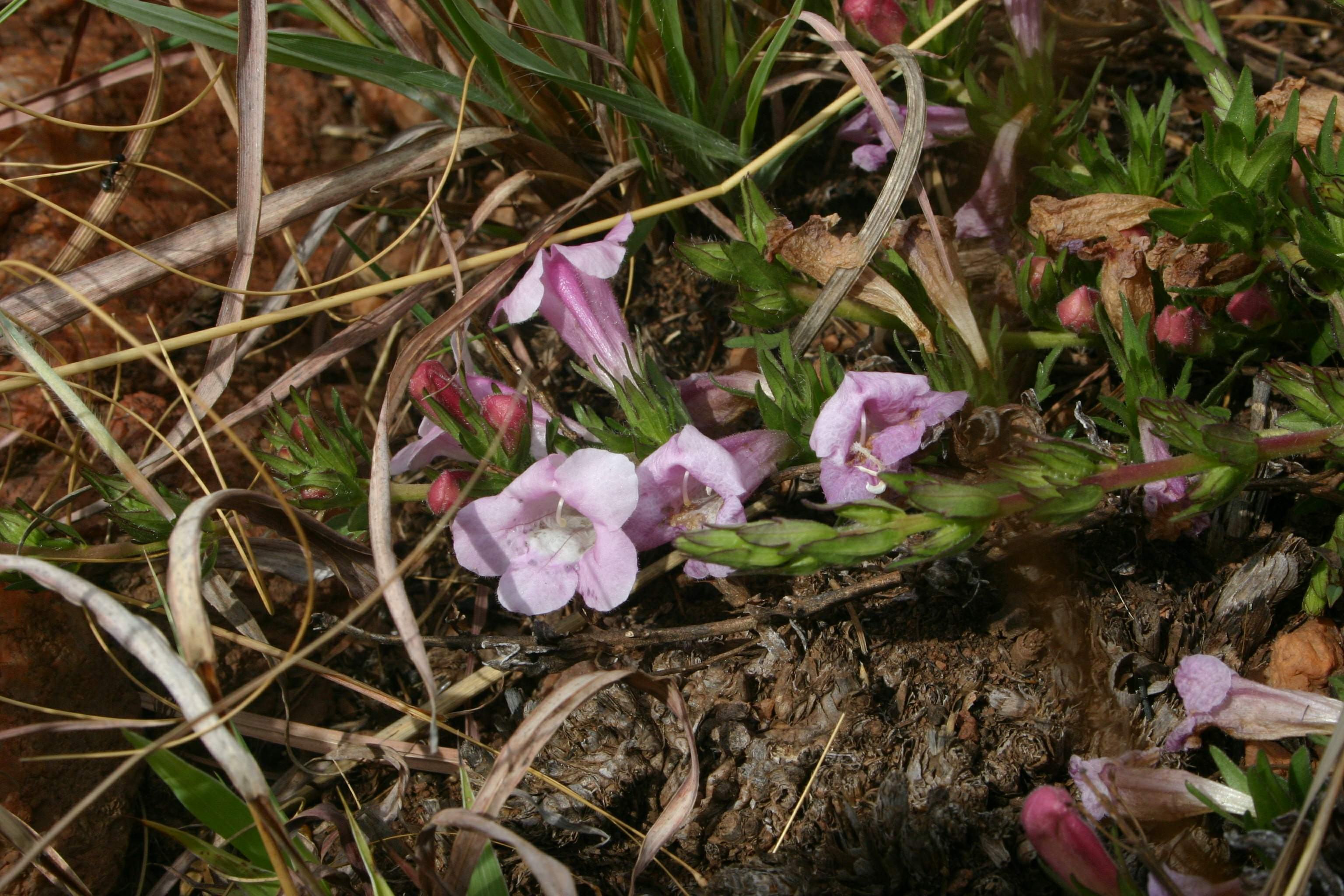 Graderia subintegra Mast., Magaliesberg, South Africa